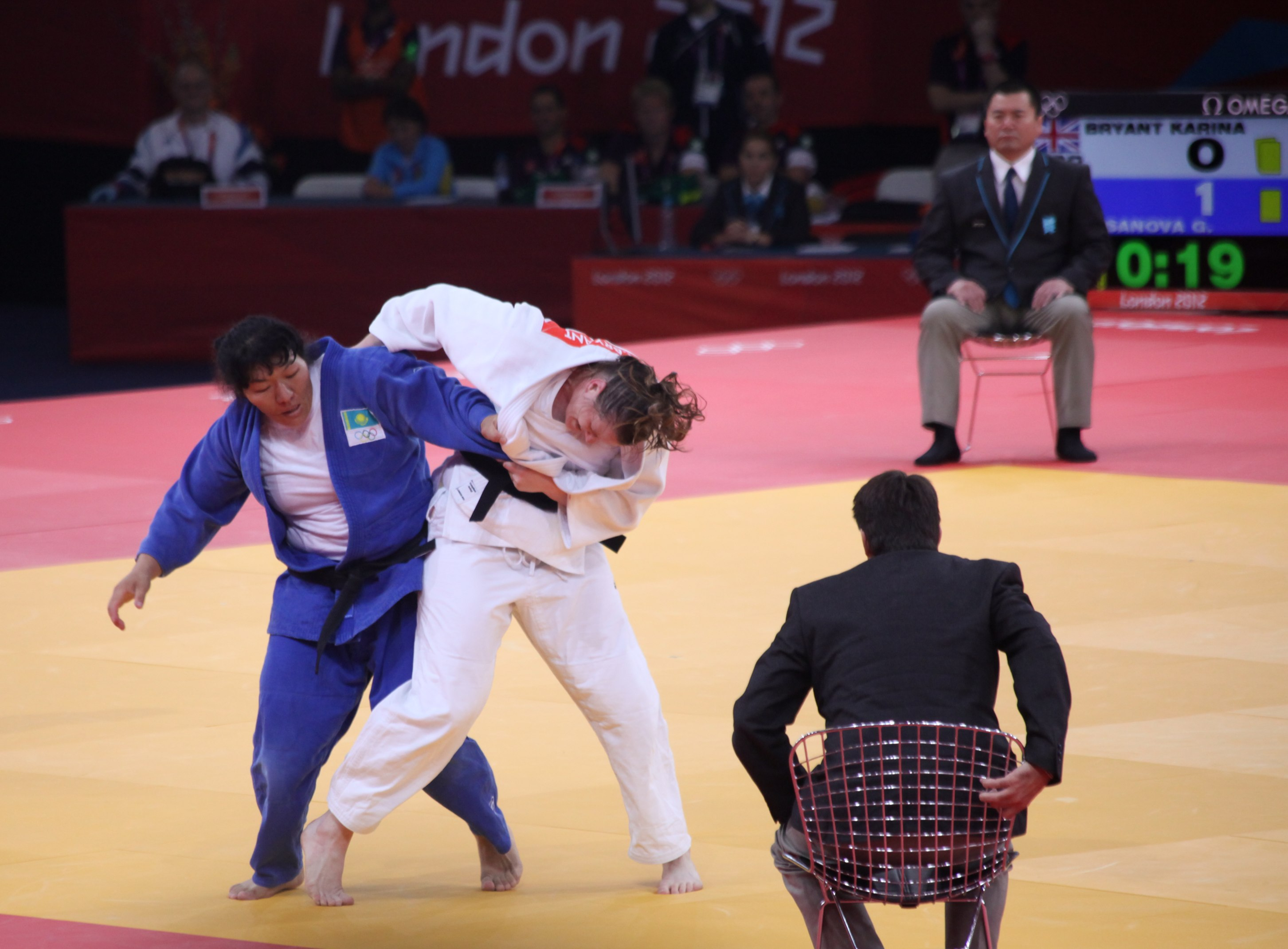 Olympic Judo London 2012